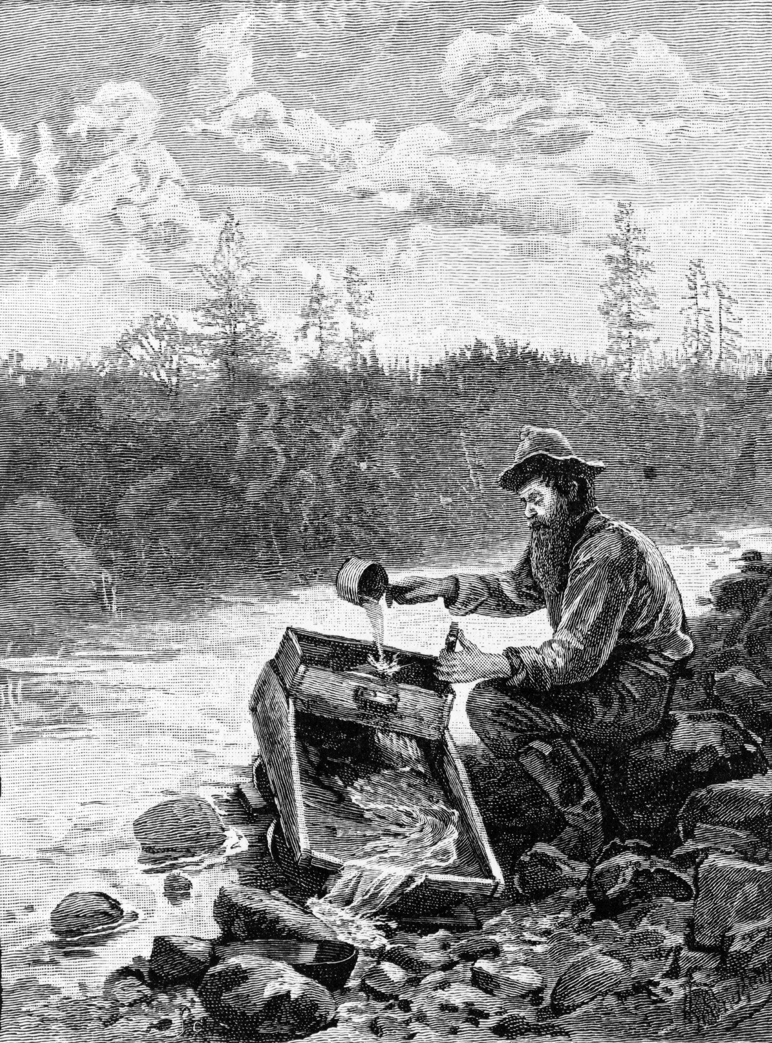 Print shows hydraulic mining for gold in California. Published in The Century illustrated monthly magazine; 1883 Jan., p. 325.[1]